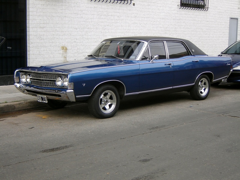 Este auto Pertenece a Ricardo Simons de Argentina